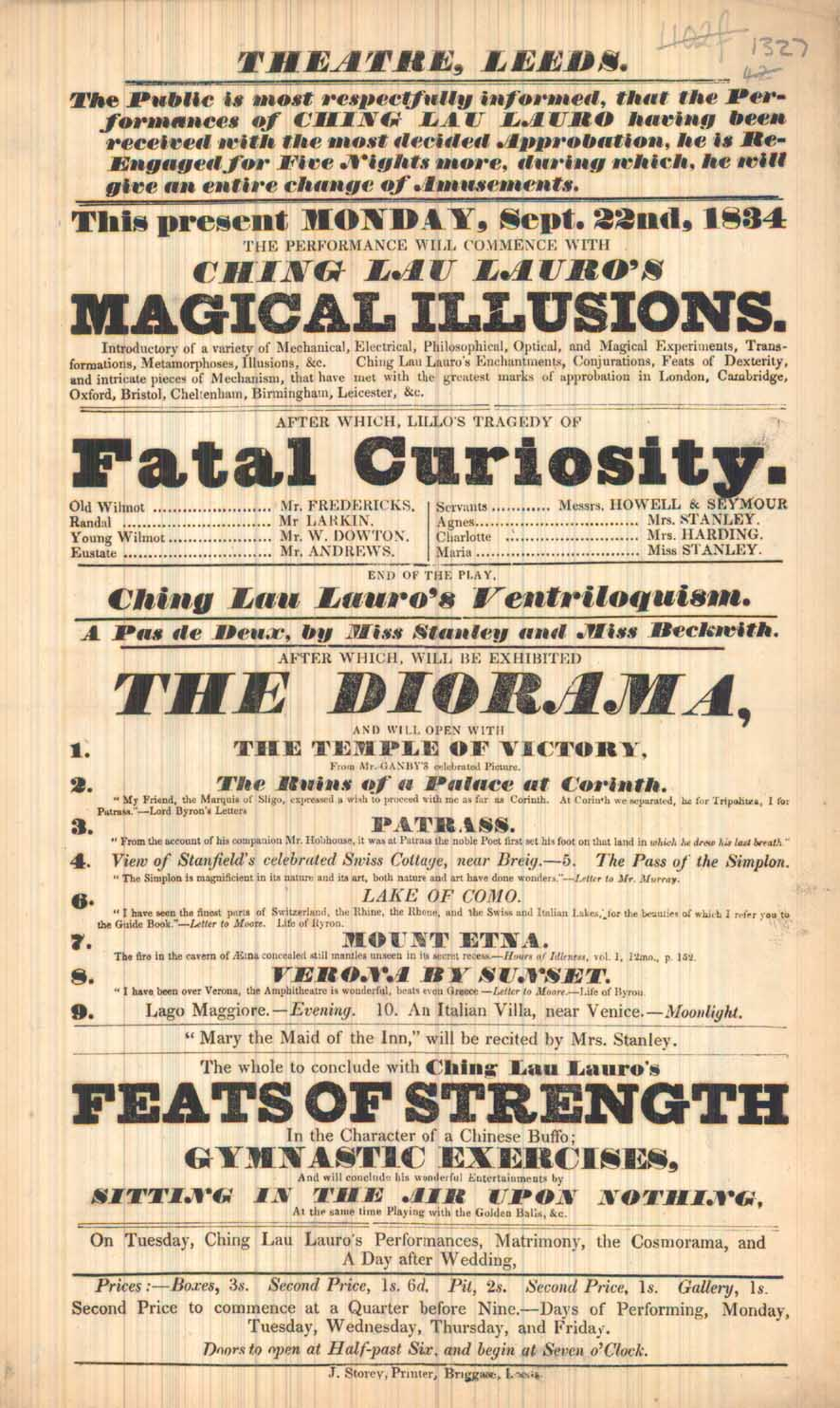 Theatre, Leeds, West Yorkshire poster of Monday 22 September 1834, advertising the magician Ching Lau Lauro